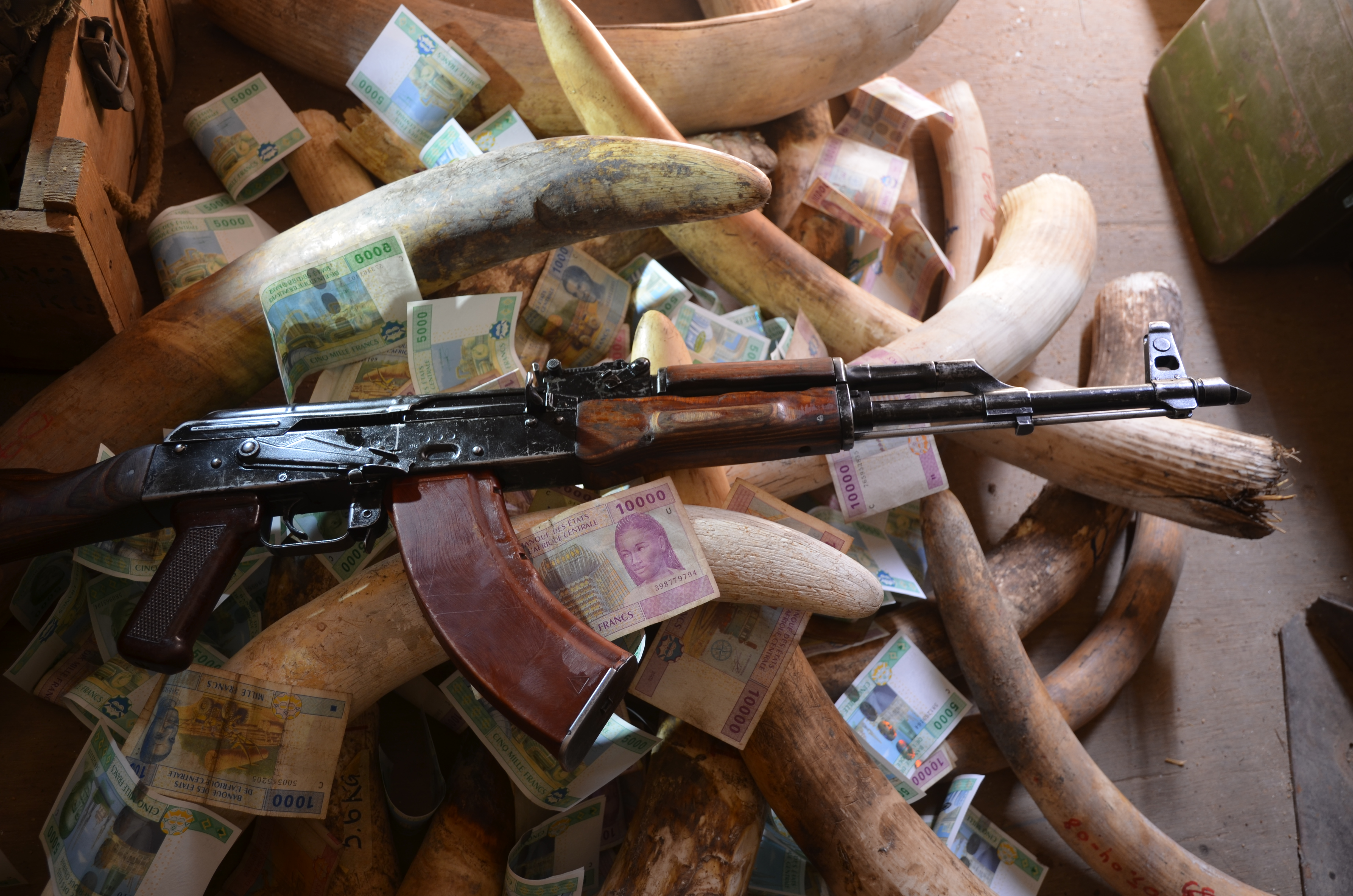 Ivory and guns and money